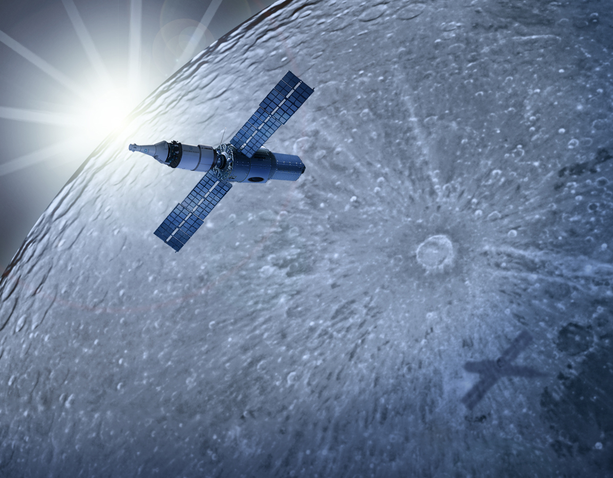 Artist's Concept illustration depicting the Excalibur Almaz Cislunar Spaceflight configuration.